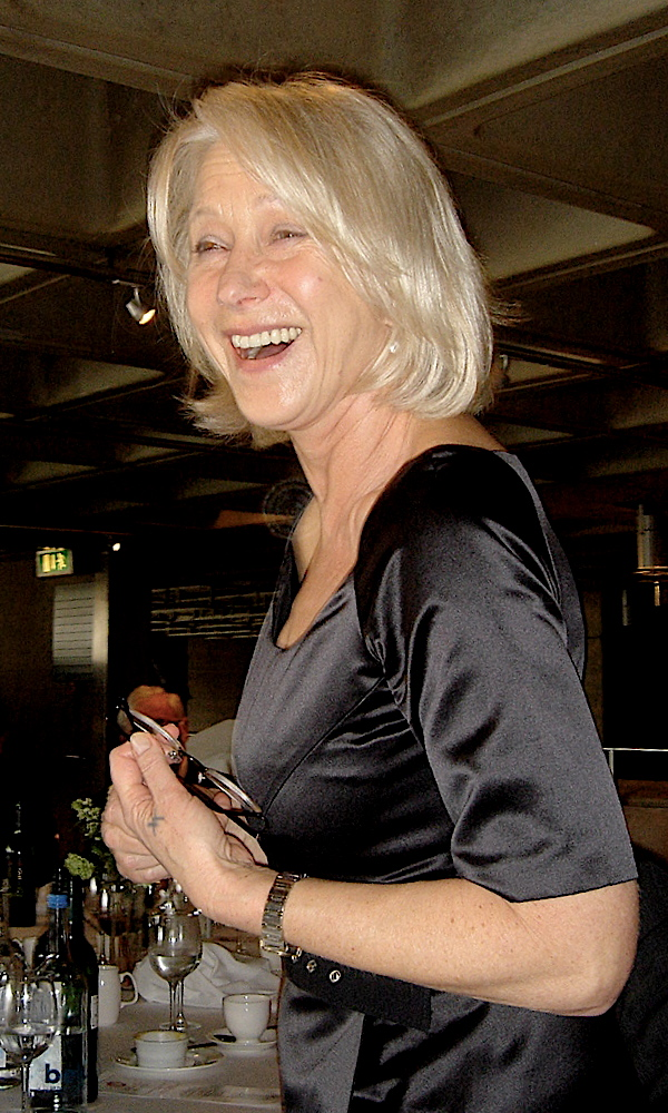 Image of actress Helen Mirren, taken at the National Theatre's Terrace Restaurant in London, on the occasion of the Critics' Circle awards luncheon on April 10 en:2007. The photograph was taken by John Reiss,[1] who has indicated to User:John Thaxter that he is happy for it to be released into the public domain; User:Angmering uploaded it on Thaxter's behalf. Any queries should be directed to either User talk:John Thaxter or User talk:Angmering. Cropped for width.